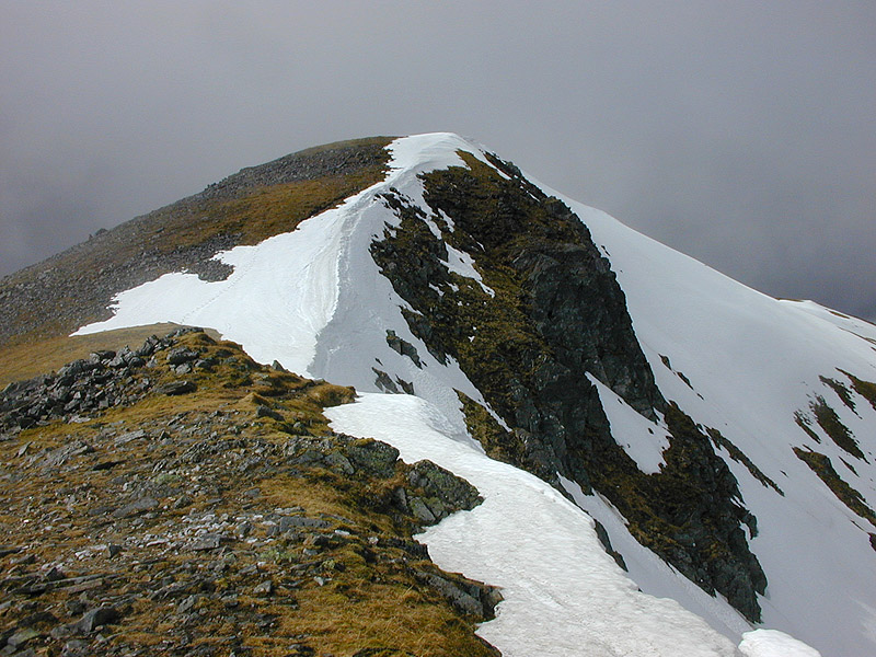 The summit of A' Chralaig Showing the final short, steep climb up to the summit area.